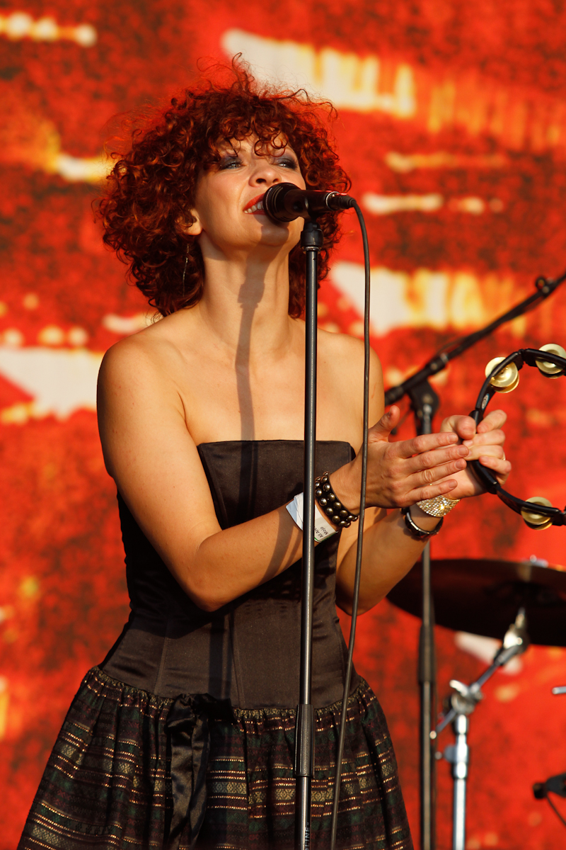 Helena Josefsson performing live on stage.